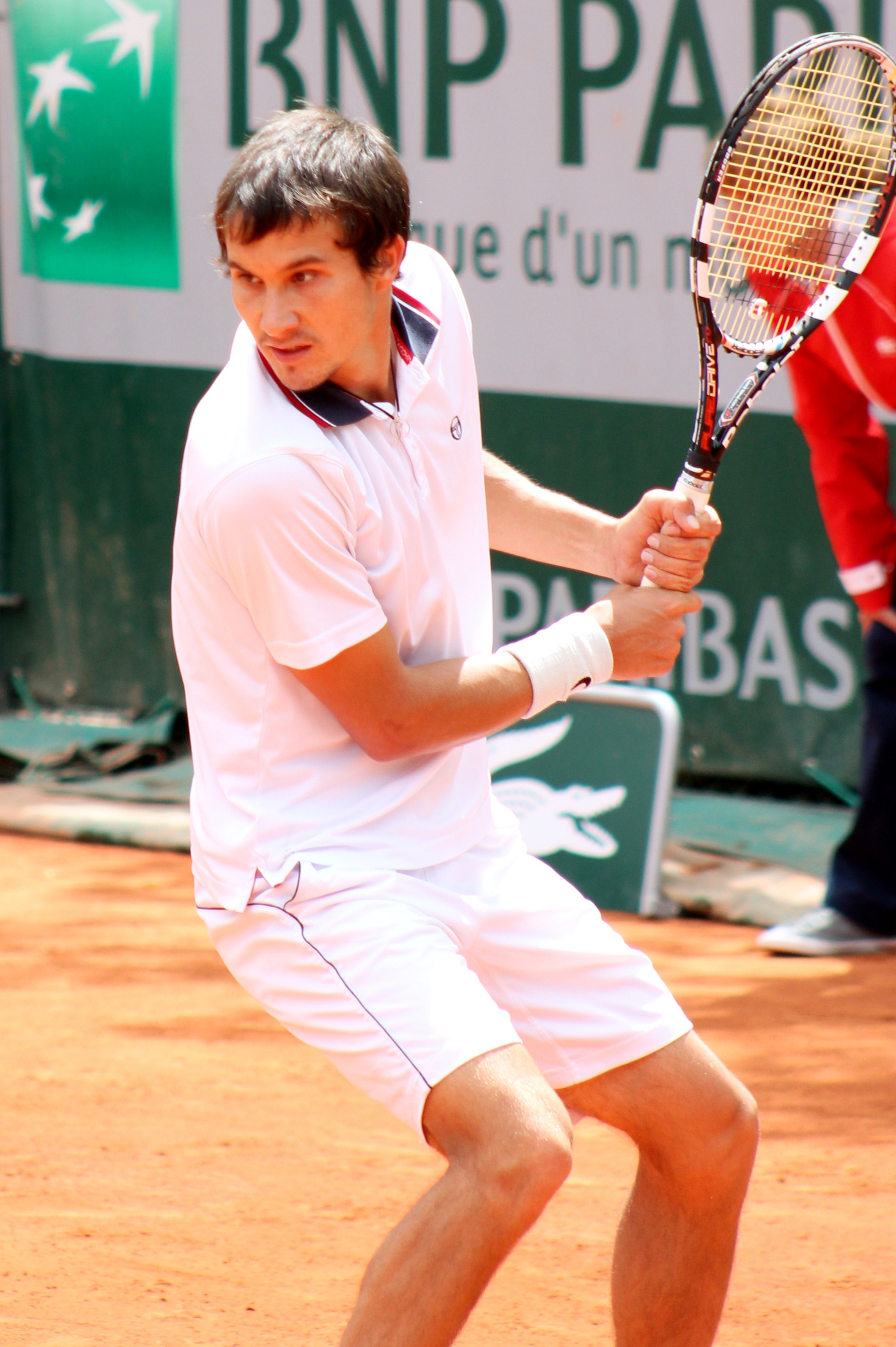 Evgeny Donskoy playing at Roland Garros 2013